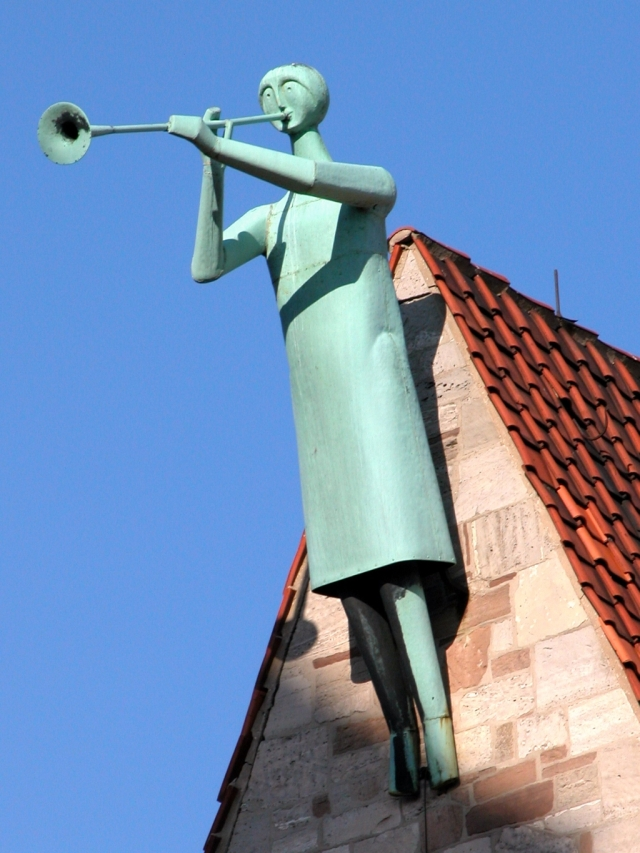 Brunswick, Germany: St. Magnus’ Church: “The Summoner”.